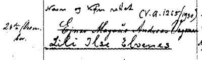 Name change of the artist Einar Mogens Andreas Wegener to Lili Ilse Elvene (also known as Lili Elbe) in the parish register of Velje, St. Nicolai.